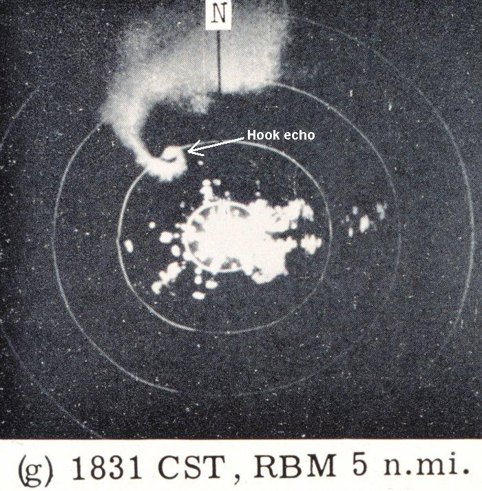 Hook echo reflectivities on the Topeka US Weather Bureau WSR-3 radar during the Meriden, Kansas, tornado in 1960.